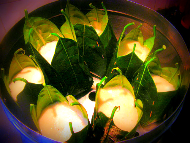 खूत्तो